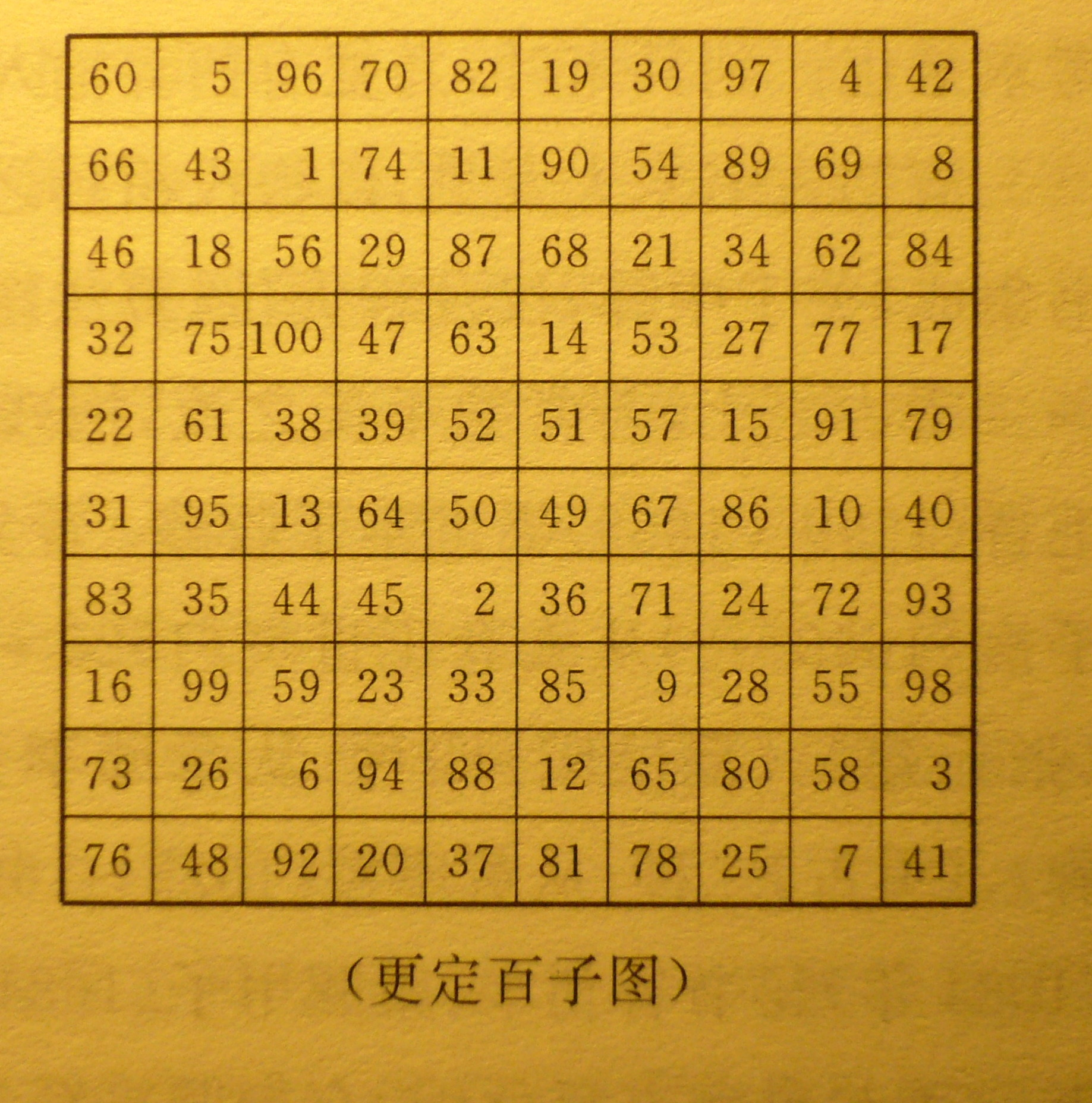 17th century Zhang Chao's 10x10 magic square